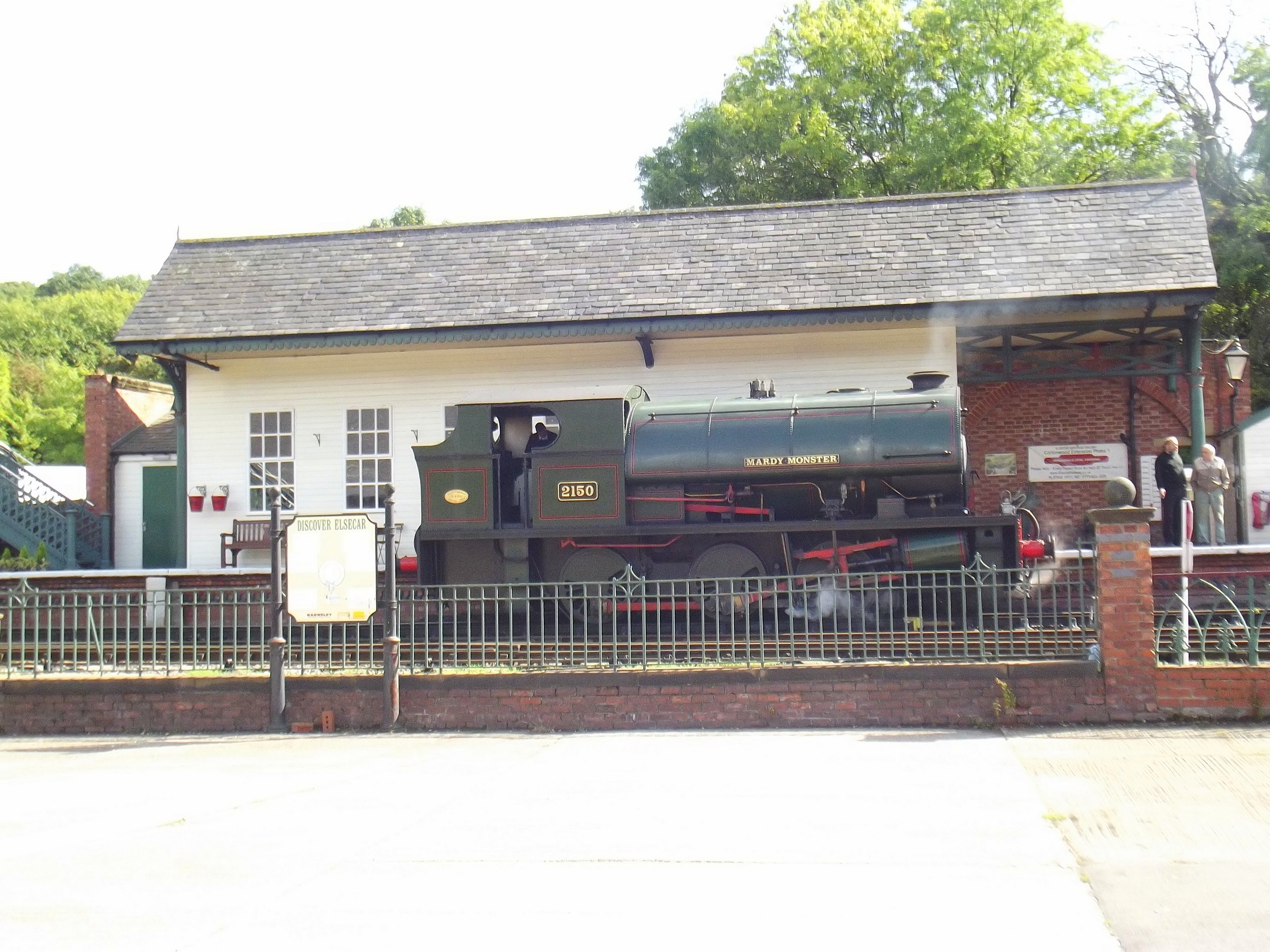 Elsecar Heritage Railway Centre